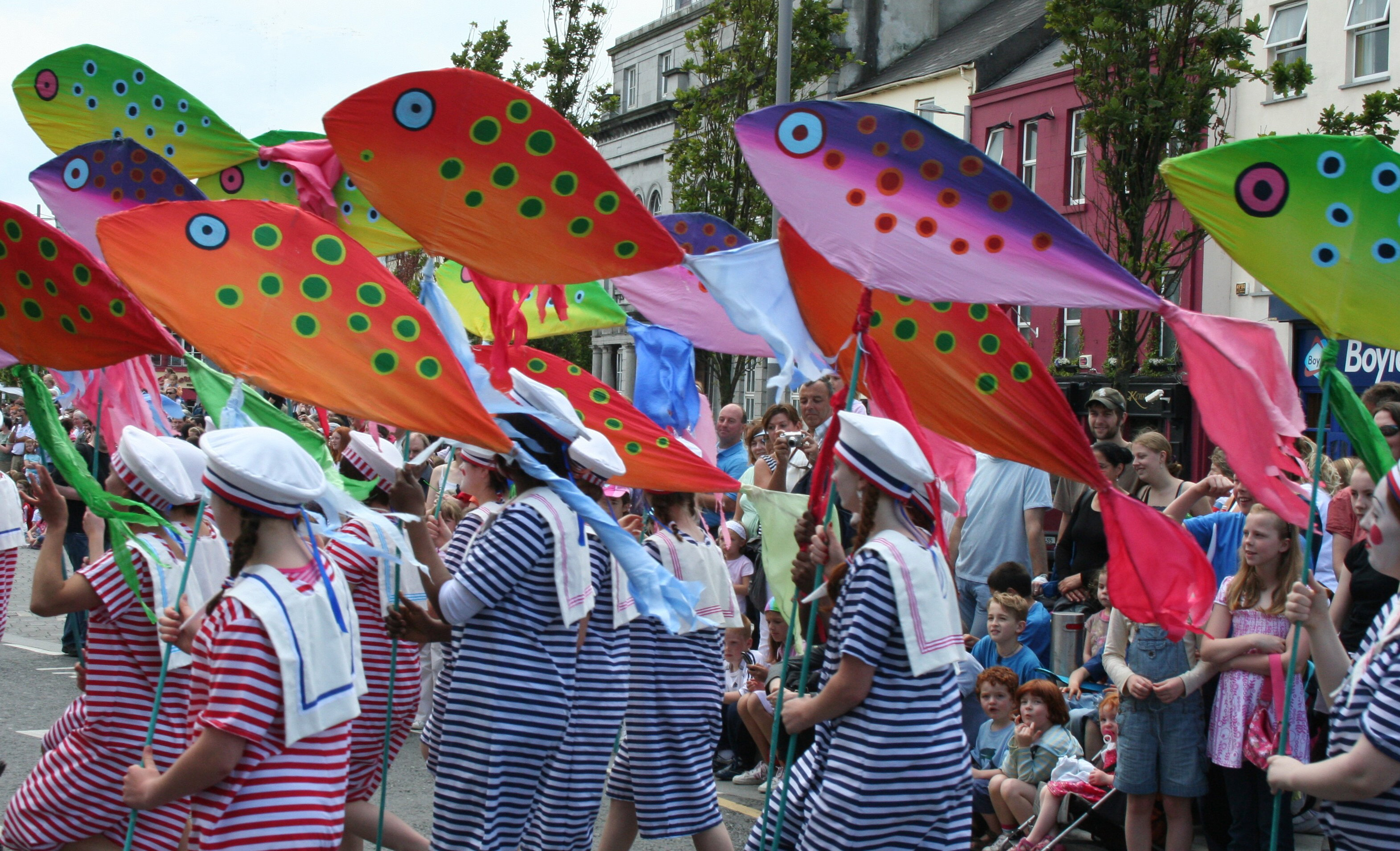 Fish on Parade